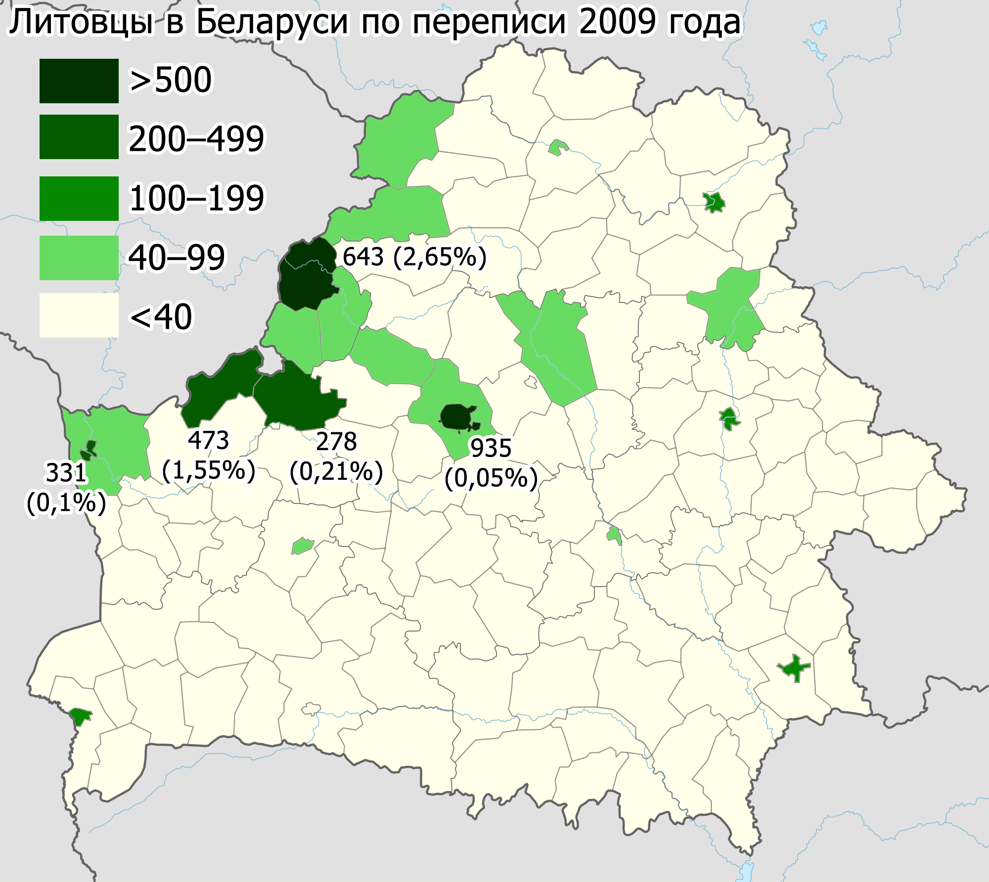 Lithuanians in Belarus according to 2009 census